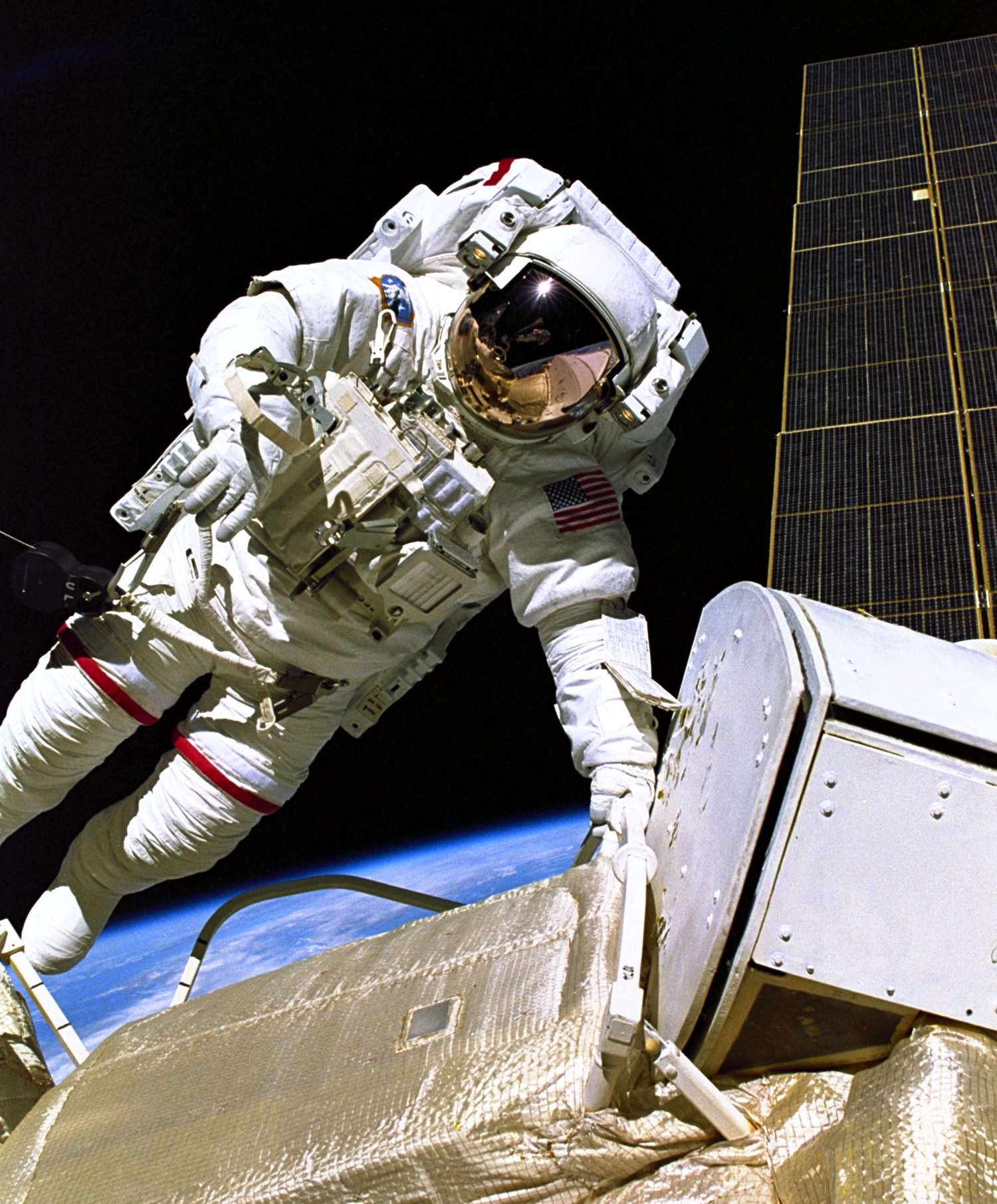 Astronaut Jerry L. Ross, STS-88 mission specialist, is pictured during one of three space walks which were conducted on the twelve-day mission. Perched on the end of Endeavour's remote manipulator system (RMS) arm, astronaut James H. Newman, mission specialist, recorded this image. Newman can be seen reflected in Ross' helmet visor. The solar array panel for the Russian-built Zarya module can be seen along right edge.